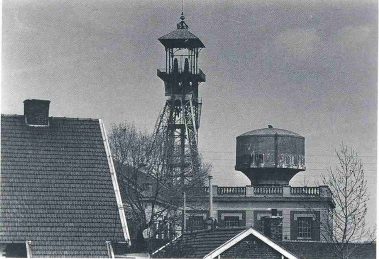 Coalpit n° 13, Compagnie des mines de Lens, Hulluch, Pas-de-Calais, France.